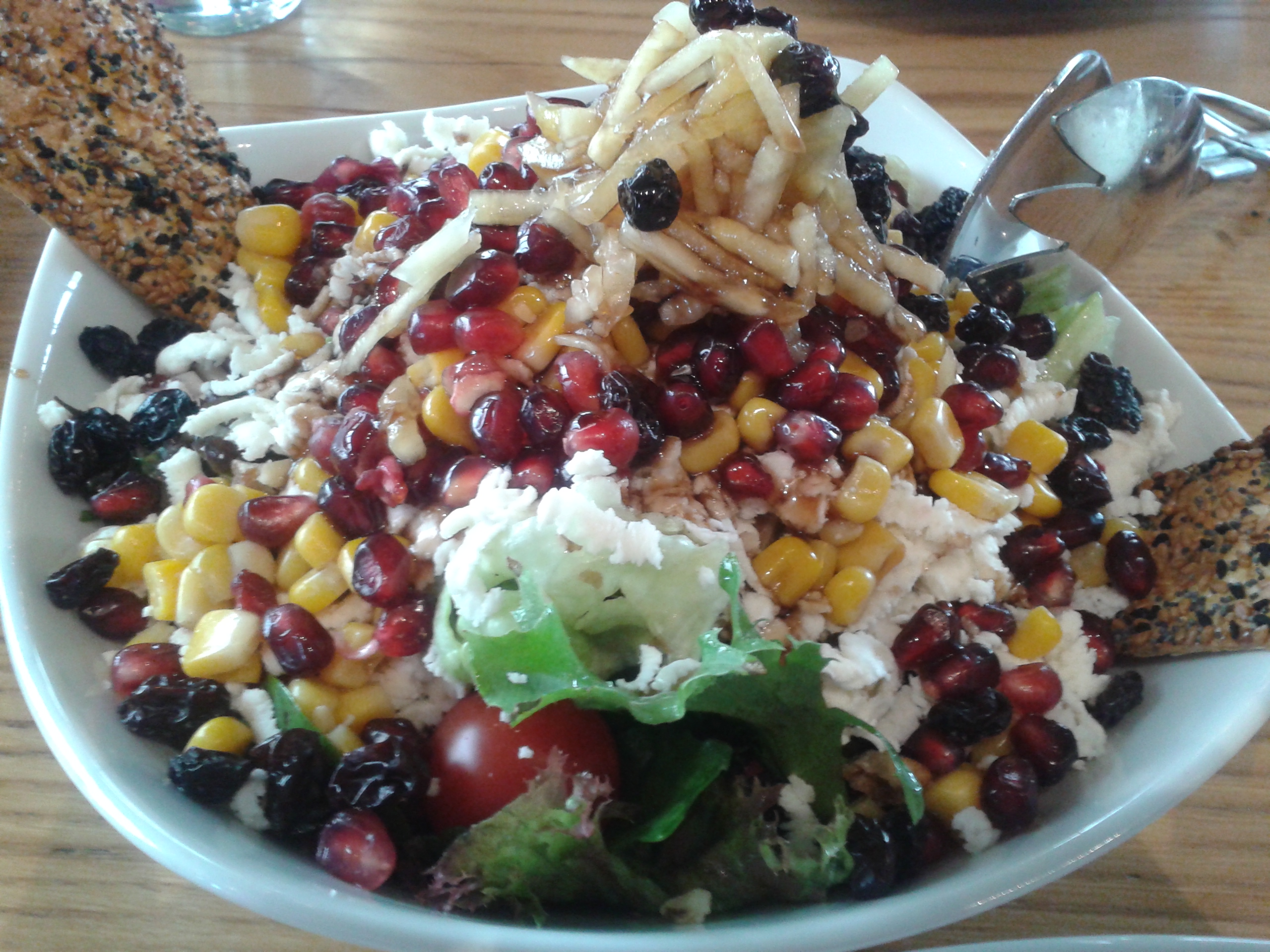 Gavurdağı salad with lor cheese (and also corn grains, a small detraction from original recipe)